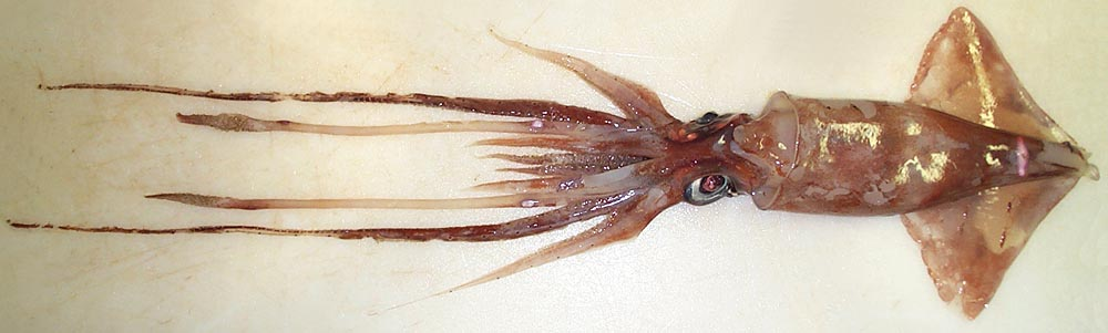 Lycoteuthis lorigera male from sub-Antarctic waters near New Zealand at 51°58'S, 171°40'E (caught in bottom trawl at 520 m)